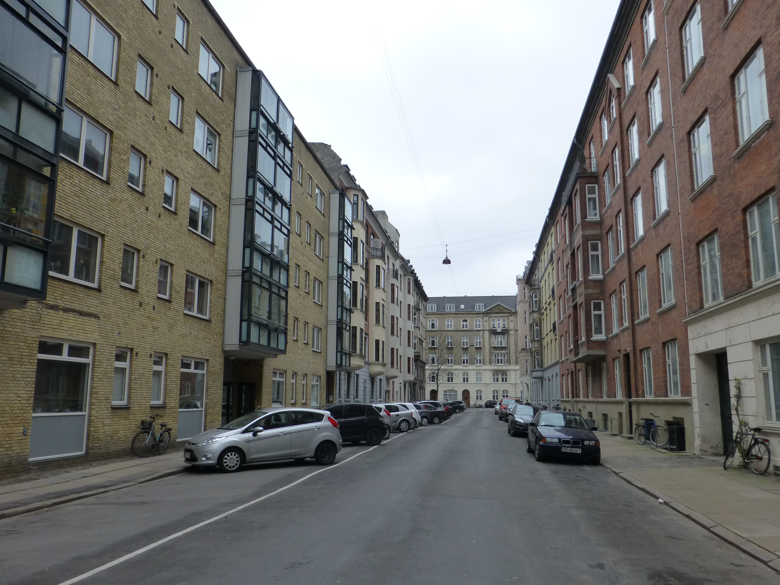 The street Kirsteinsgade in Østerbro in Copenhagen.